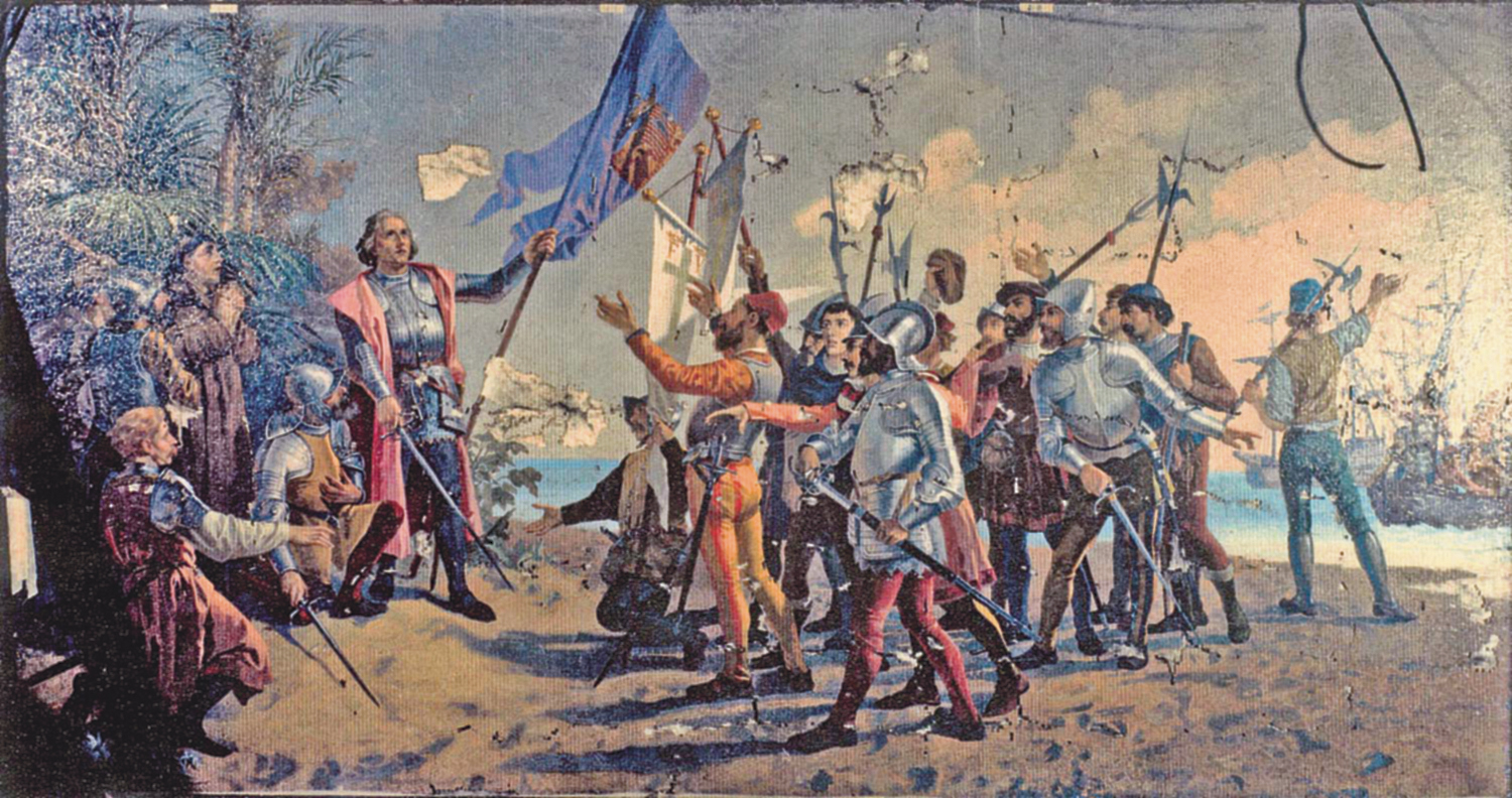 Mosaic Columbus Discovering America